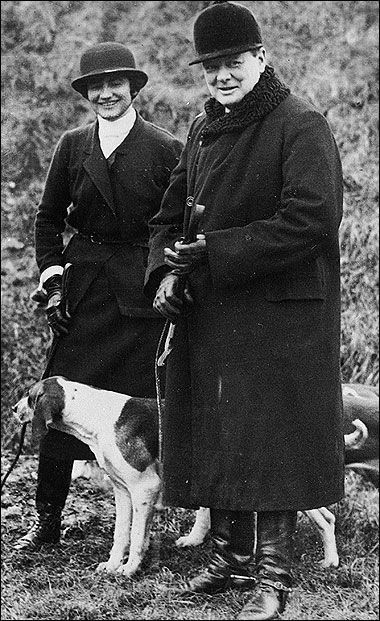 Winston Churchill and Coco Chanel in the '20s